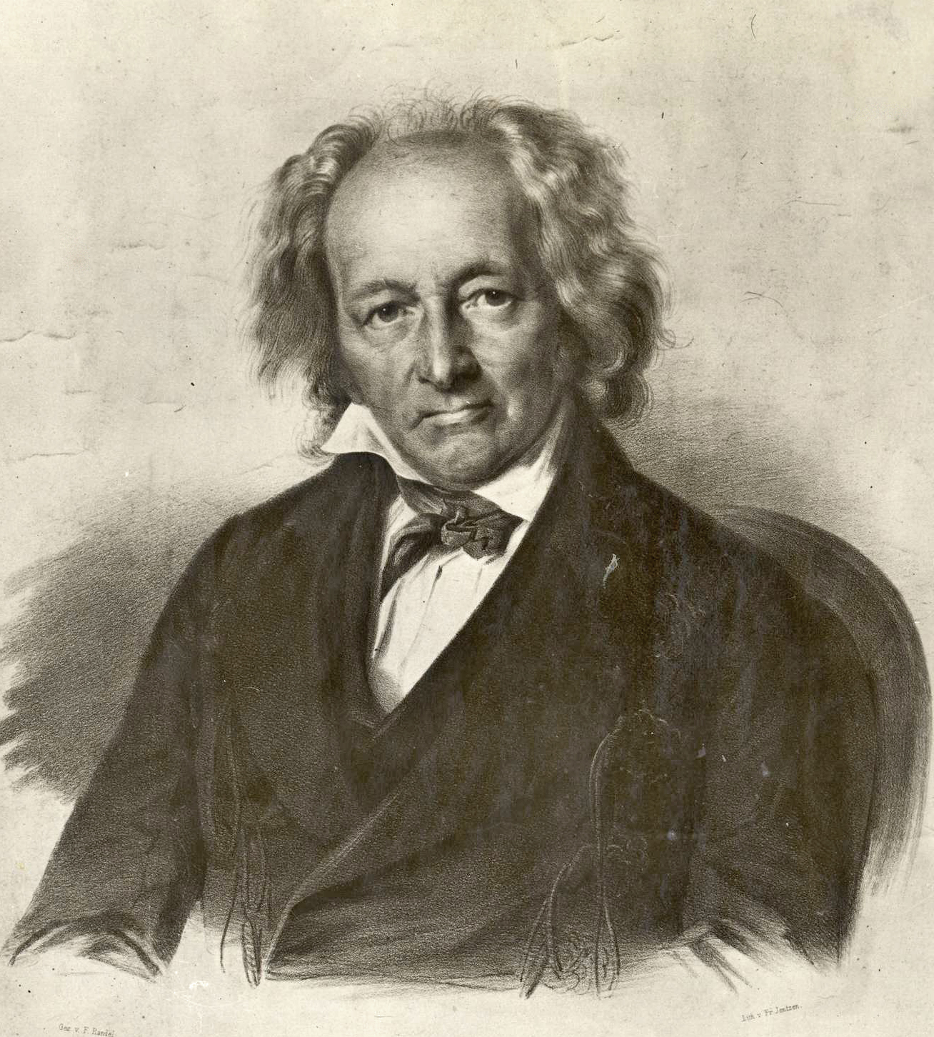 Picture of Joseph Mendelssohn